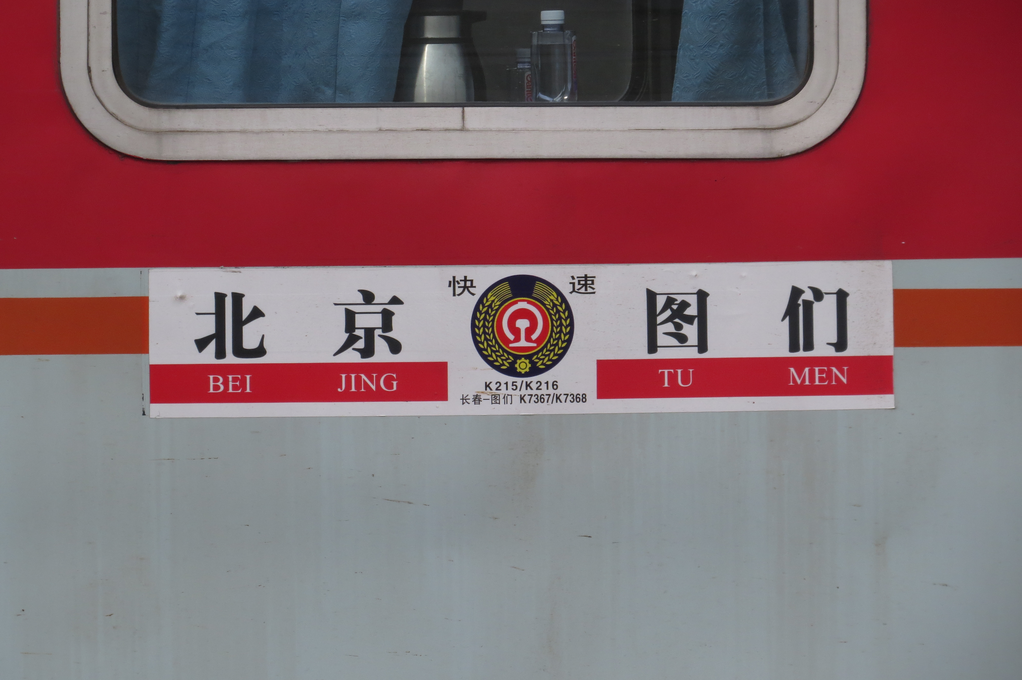 Taken at Yangcun.